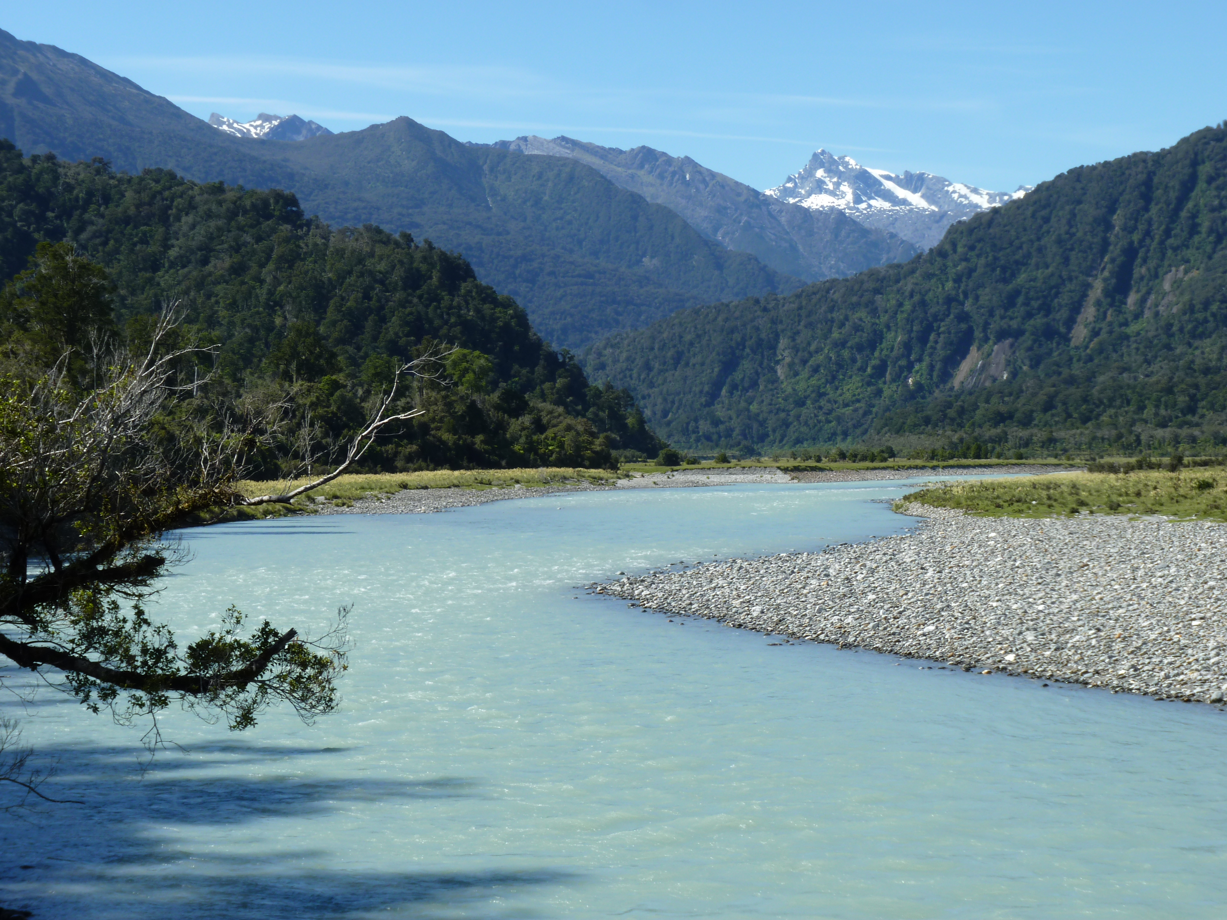 Copland Track in Westland Tai Poutini National Park, Westland District, New Zealand